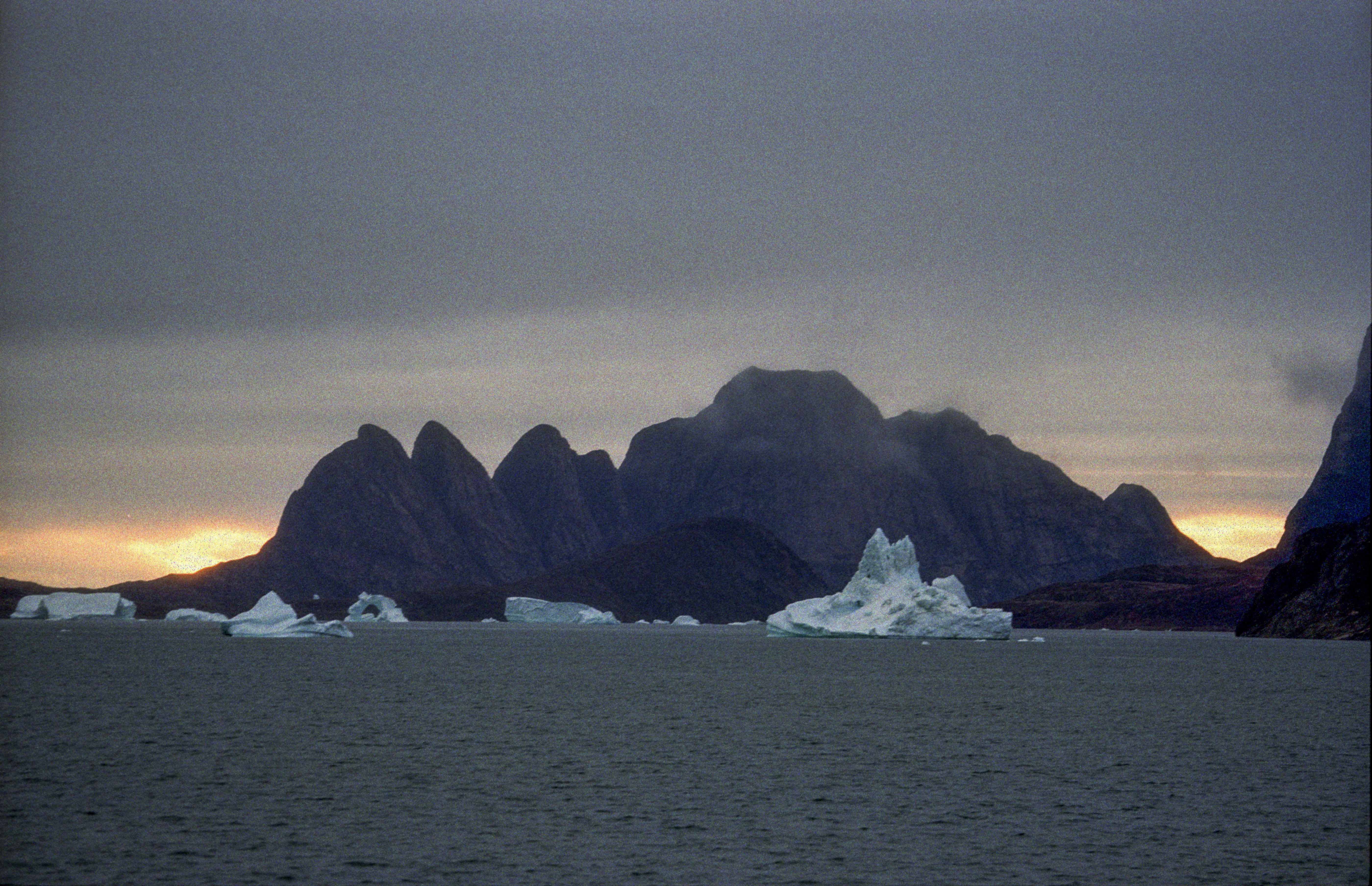 Greenland, Bjorne Island, (Bjørneø), small island near the mouth of Geolog Fjord, Franz Josef Fjord